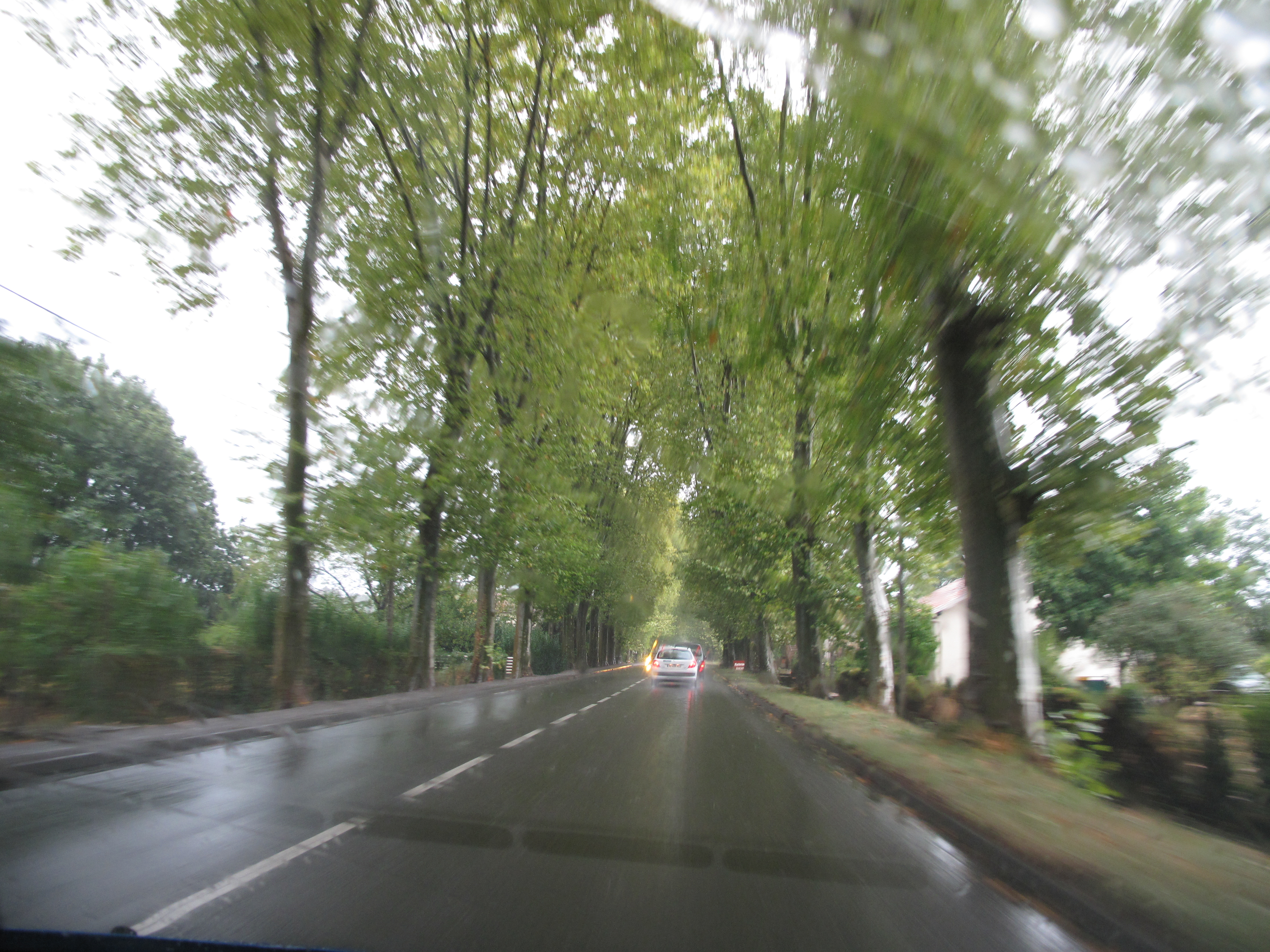 The National Road RN117 (or D817) between two ranks of tall plane-trees before Peyrehorade, Landes, France, driving to east